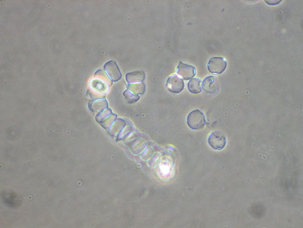 The heterolobosean protozoa species Acrasis rosea Olive & Stoian. Photographed at the Biology of Fungi Lab, UC Berkeley, California.